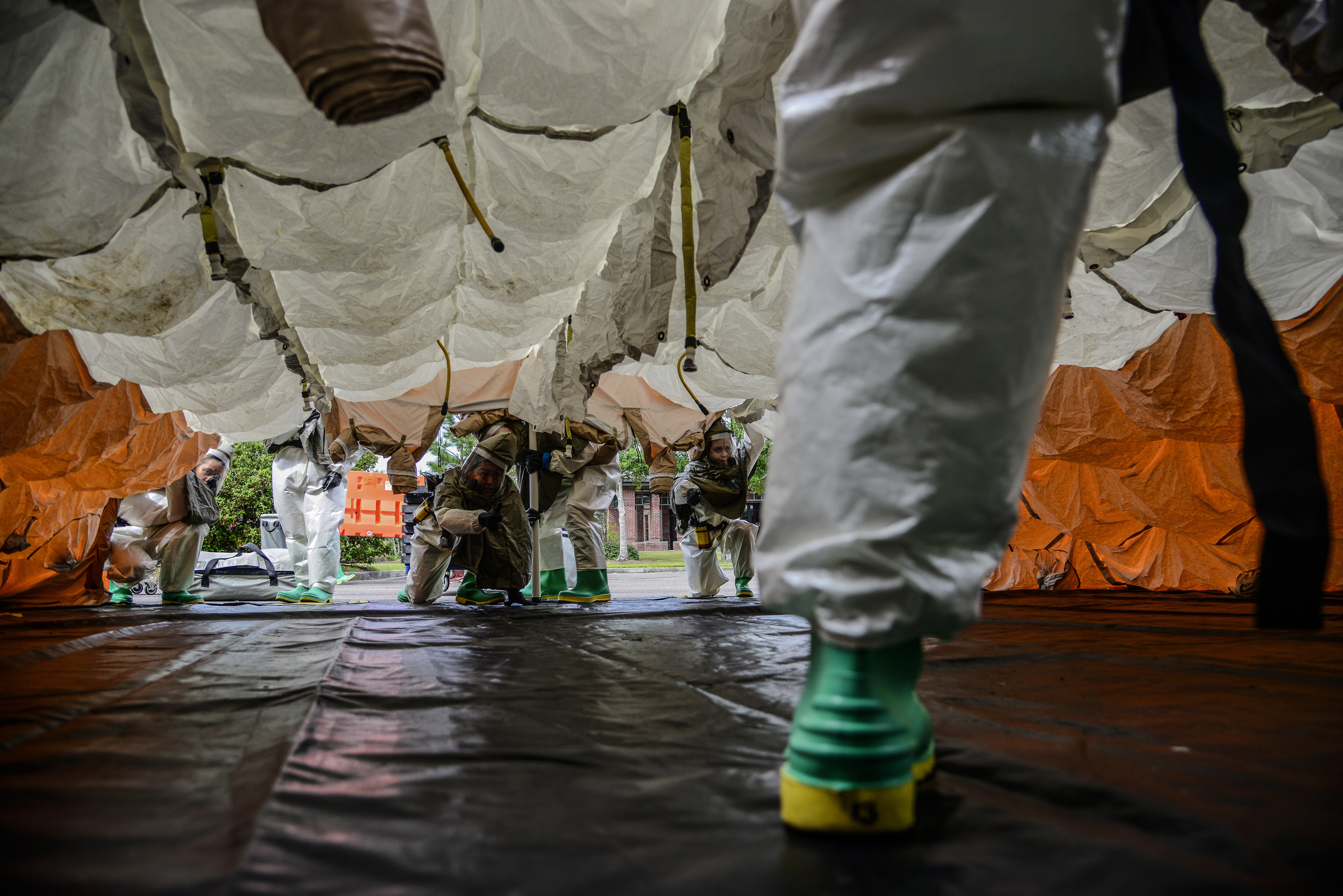 Airmen from the 628th Medical Group, erect a decontamination tent during a mass casualty exercise Oct. 3, 2012, at Joint Base Charleston - Air Base, S.C. During the exercise, the 628th MDG set up a cordon, secured the contaminated area and provided emergency medical treatment to simulated casualties. The training prepares Airmen to respond to a chemical, biological, radiological or nuclear catastrophe.